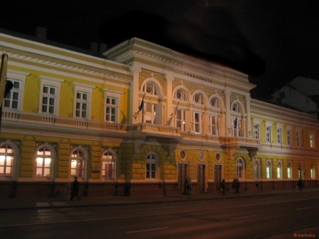 The town hall (Kossuth Square) of Szolnok at night.